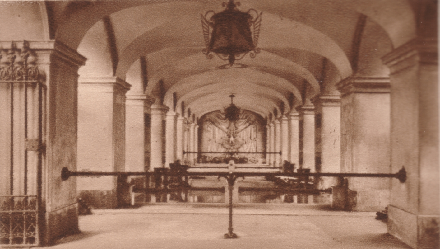 Tomb of the Unknown Soldier in Warsaw, Poland.